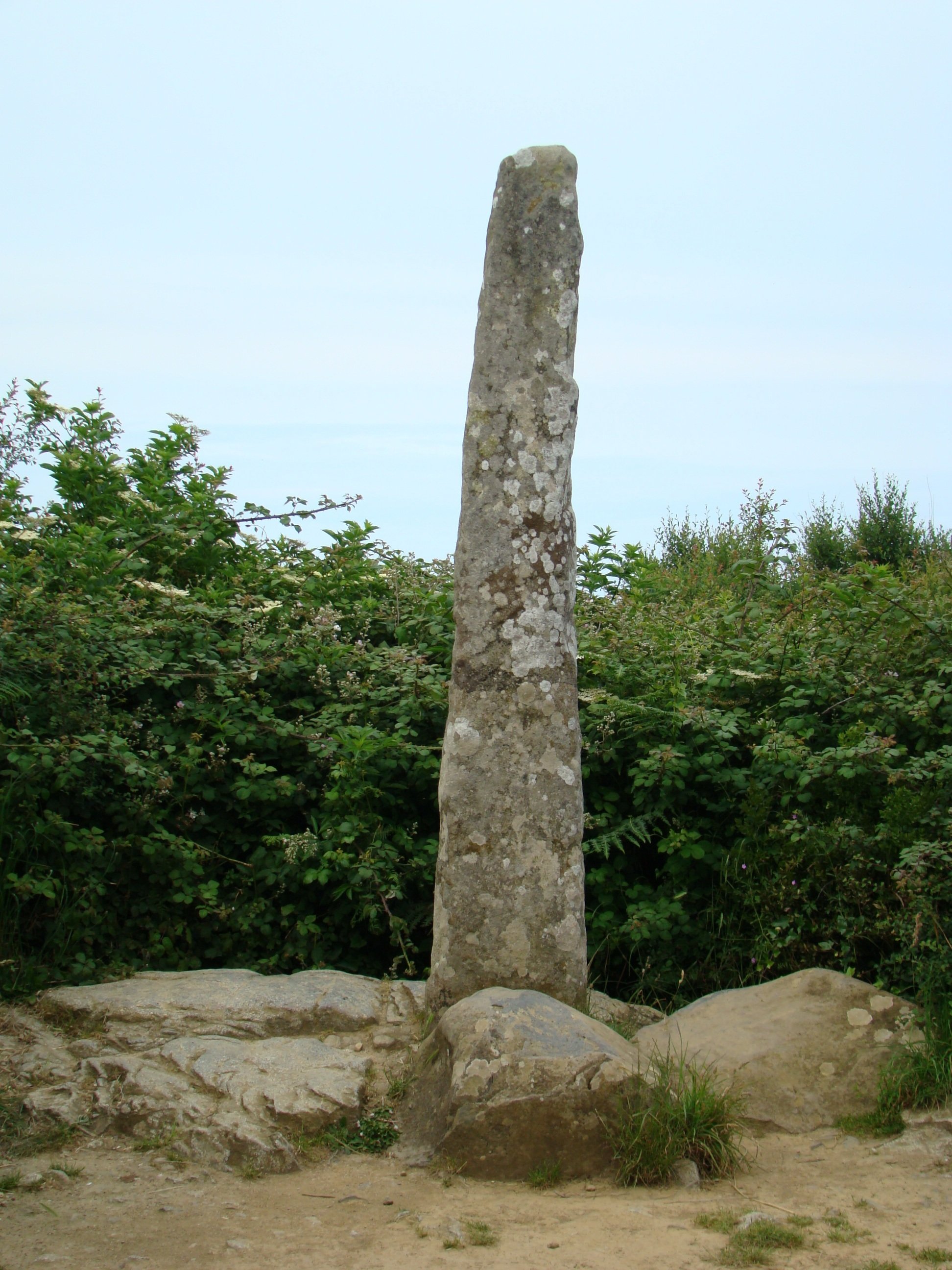 "Gargantua's Finger", a french menhir near Fort-la-latte, in Britain